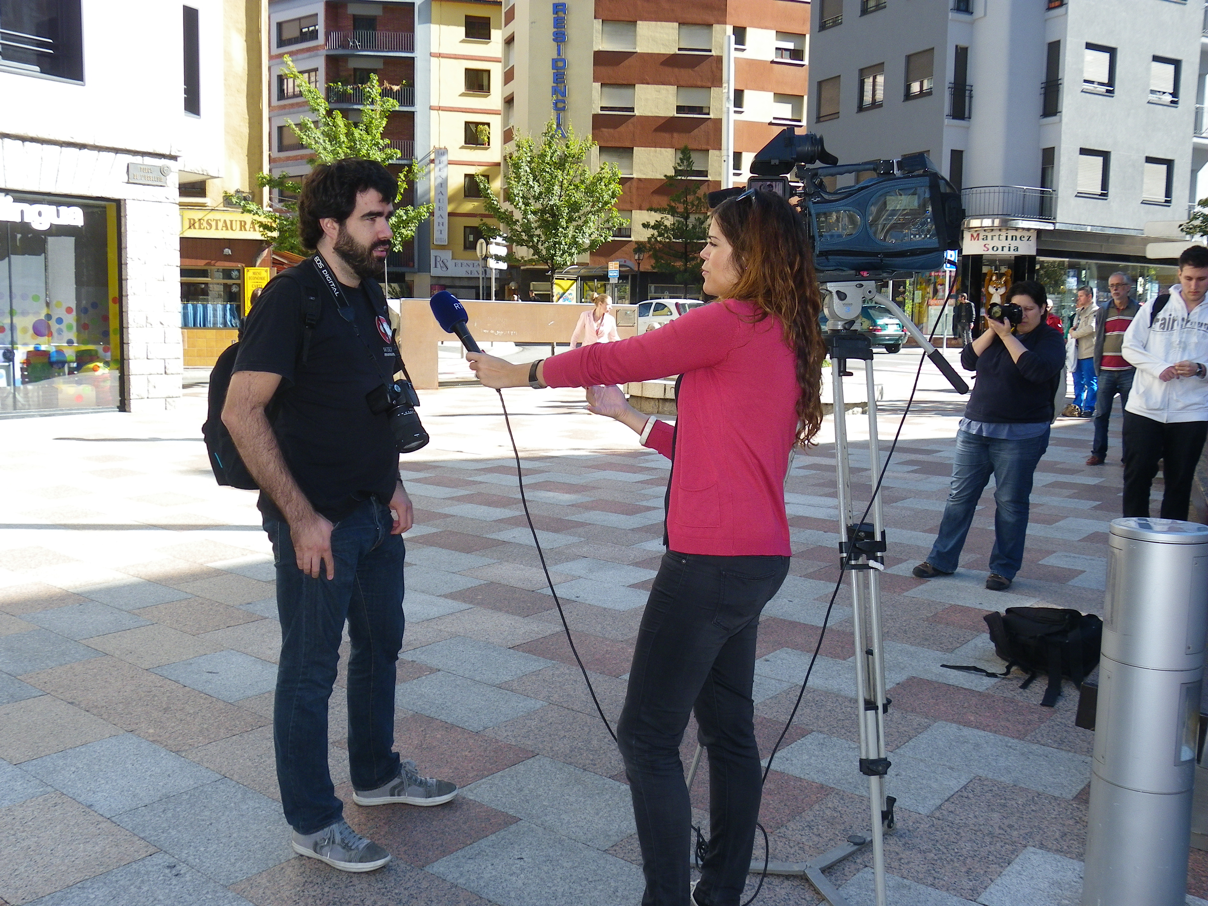 Andorra TV interview Kippelboy in Andorra photowalk.